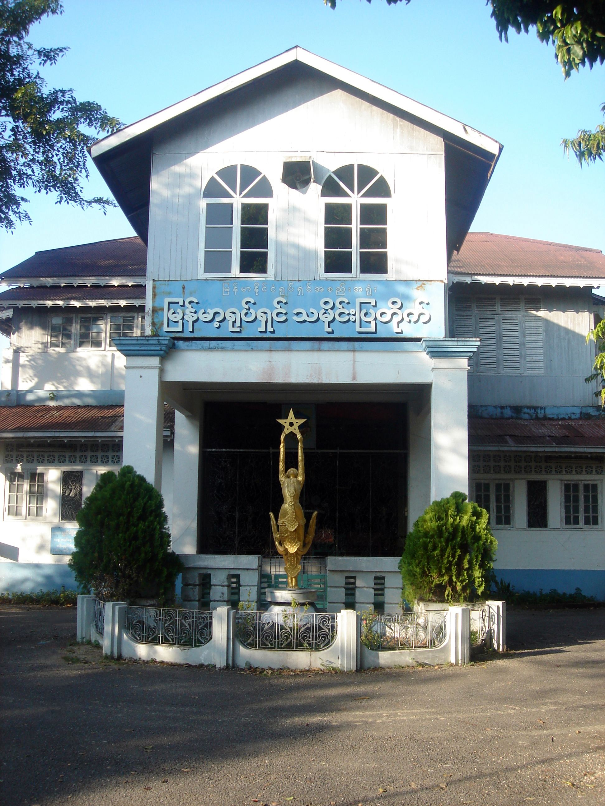 Yangon, Yangon Division, Myanmar Myanmar Motion Picture Museum